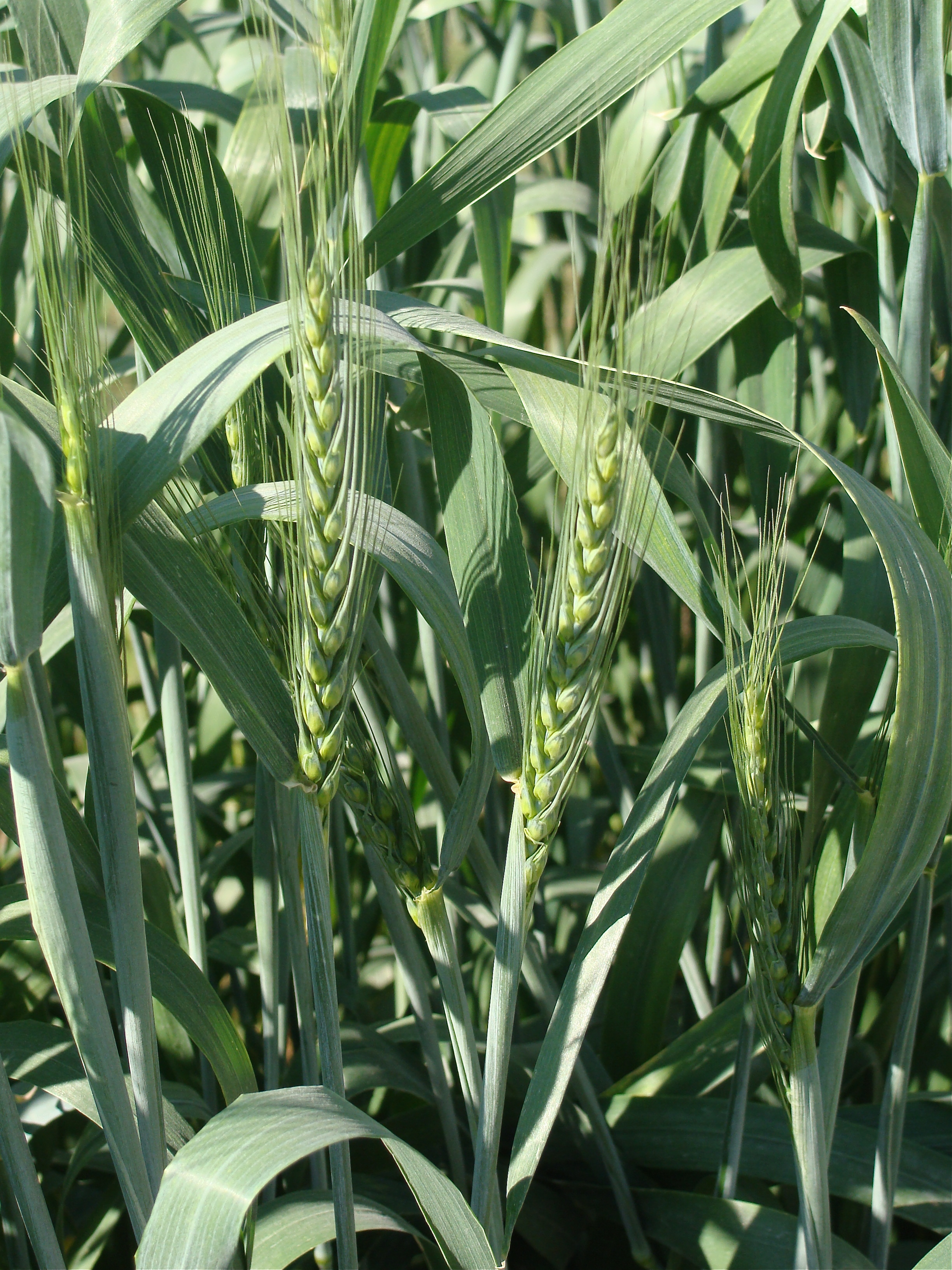 Triticum aestivum L. subsp. aestivum, "Viglaska", a local and natural variety of wheat from Slovakia, Paris, Jardin des Plantes, in may.